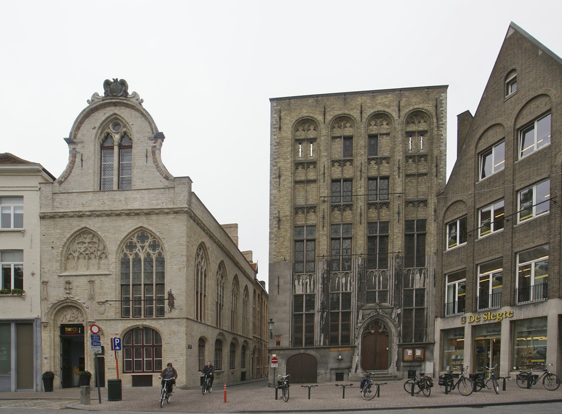 Bruges (Belgium): Woolmarket Saaihalle (left) and House "van der Bursen" o "Ter Beurze", first stock exchange worldwide (right)